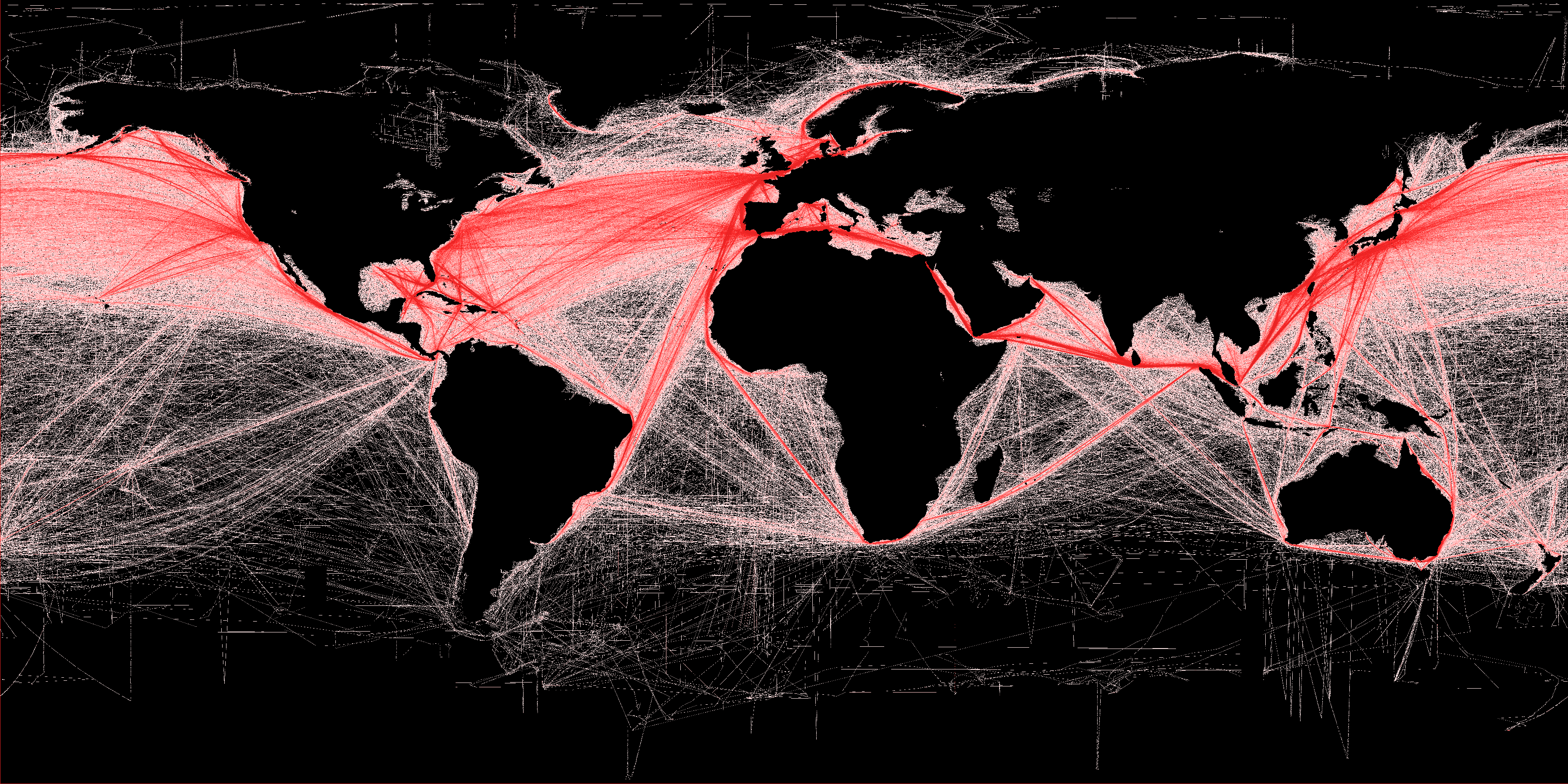 Shipping density (commercial). A Global Map of Human Impacts to Marine Ecosystems, showing relative density (in color) against a black background. Scale: 1 km. More details available at